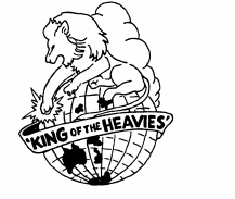 King of the Heavies logo for the 380th